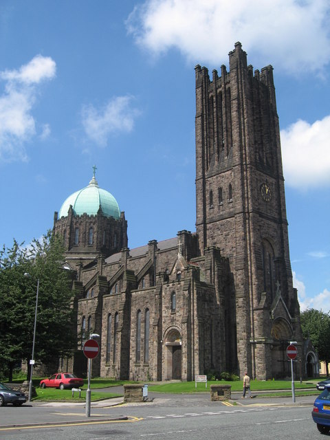 St Mary's Roman Catholic church, Lowe House, St Helen's, Merseyside